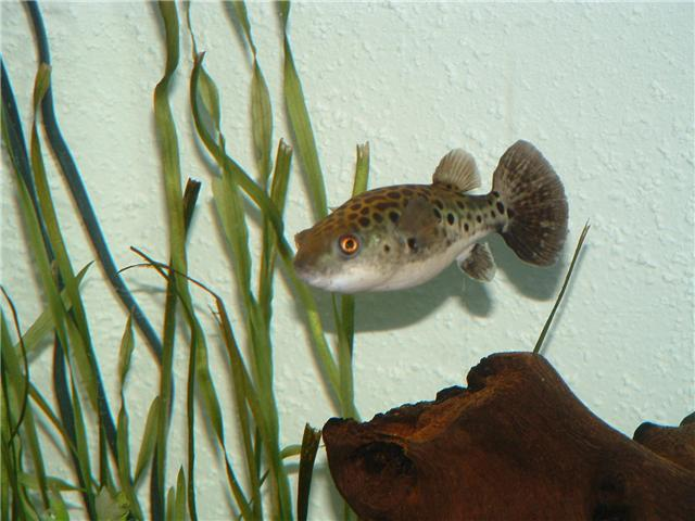 Tetraodon Sabahensis 4 inches